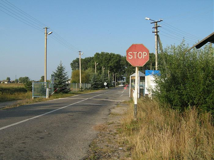 Pischa border crossing on the Ukraine-Belarus border